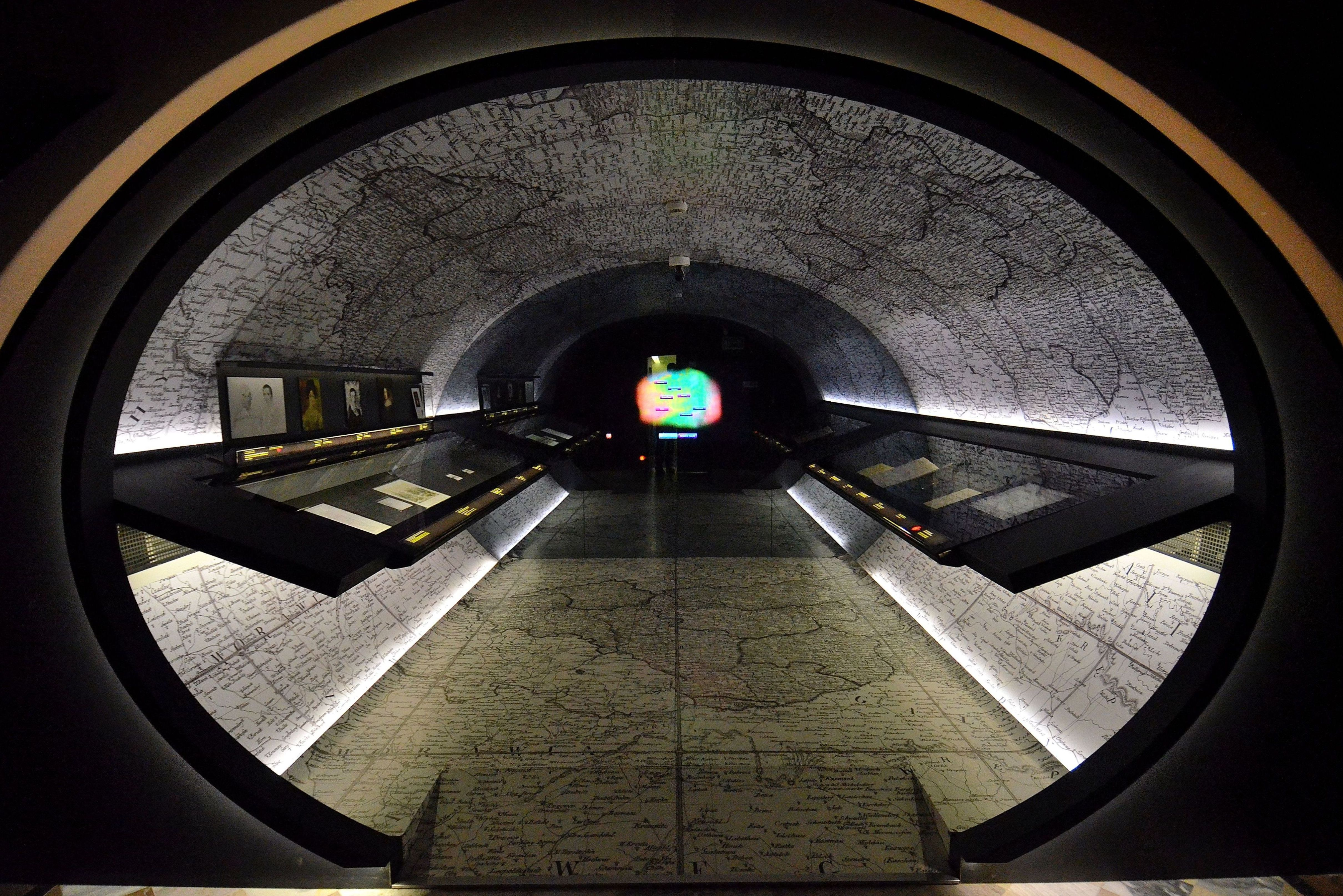 Frederick Chopin Museum in Warsaw. Żelazowa Wola and youthful excursions hall